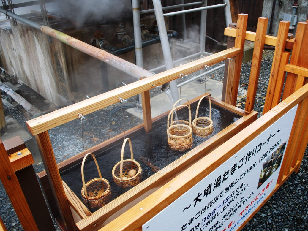 Mine hot spring at Kawazu town. (Onsen egg at Dai funto park）